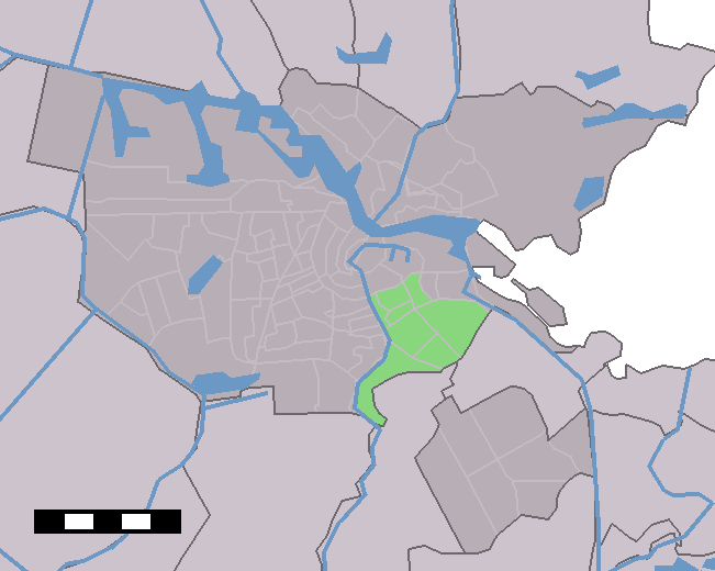 Location of neighbourhoods/districts in Amsterdam